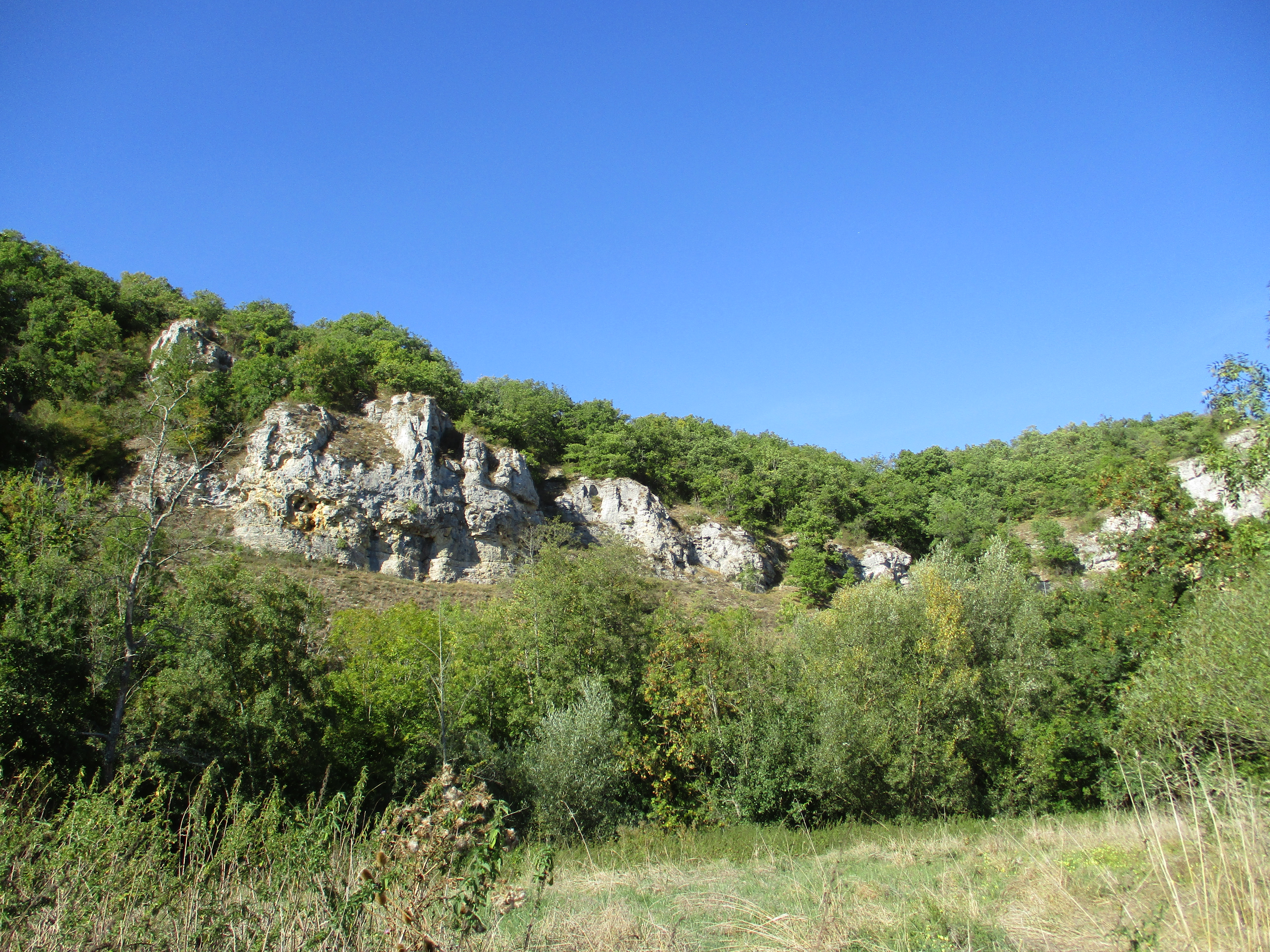 Saint-Moré, Yonne, Burgundy, France. These cliffs are on the south side of the "côte de Char", a corallian limestone formation that was hollowed by the river Cure to form the caves of Saint-Moré. Some 800 m away from its western end, two tunnels were dug following a north/south direction through the côte de Char: the one seen here is for trains, the other for the D606 road further east. Hidden by the trees, the two tunnels enter the cliffs near the left edge of the photo, immediately after the bridges. The cliffs seen here are on the east of the tunnels. This photo was taken looking east/north-east from the "sentier des grottes d'Arcy et de Saint-Moré" (discovery footpath of the caves of Arcy-sur-Cure and of Saint-Moré), near the railway bridge.